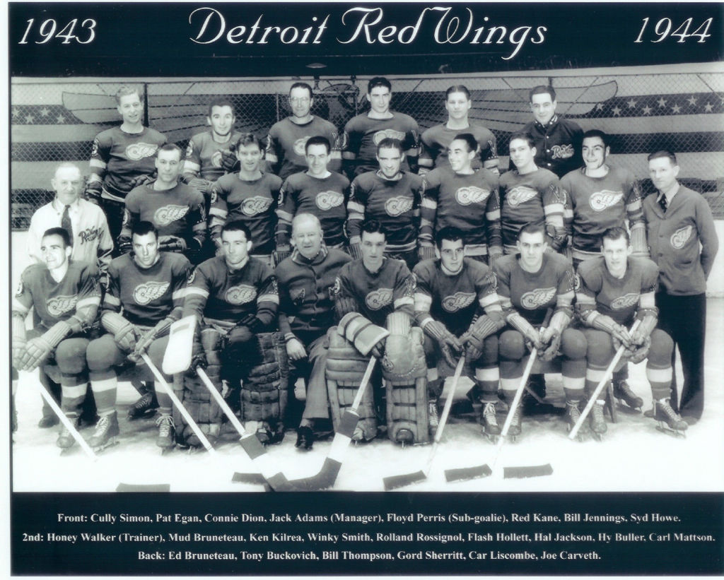 Team photo, 1943-44 Detroit Red Wings